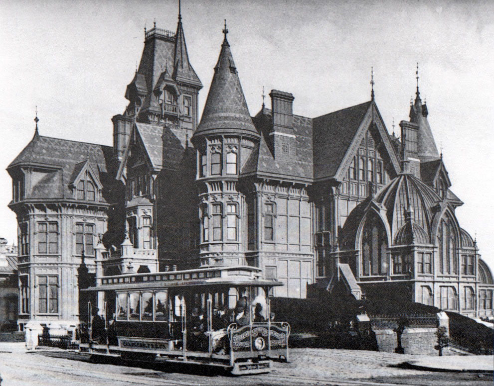 Mark Hopkins mansion from California Street